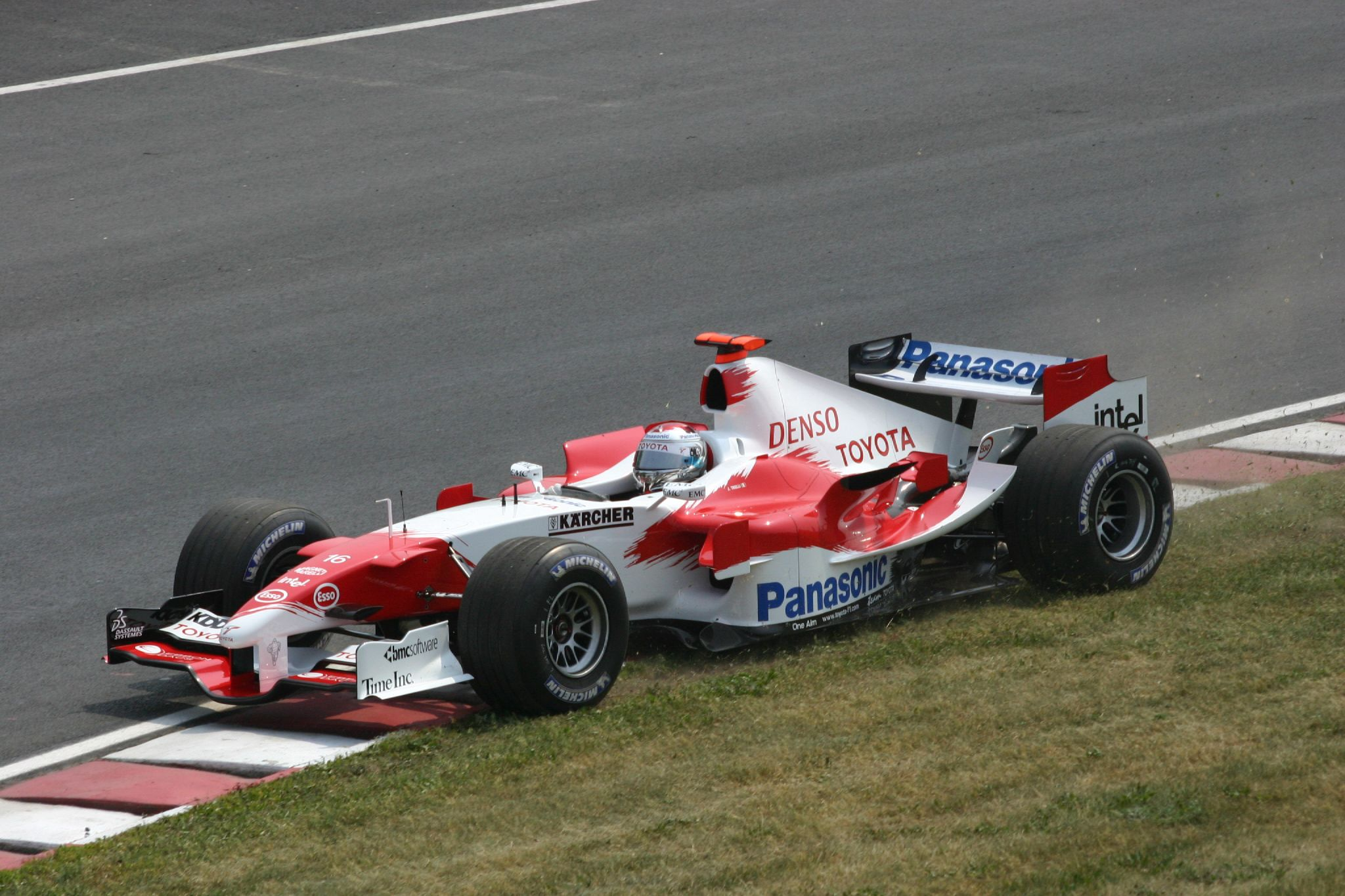 Jarno Trulli driving for Toyota F1 at the 2005 Canadian Grand Prix.